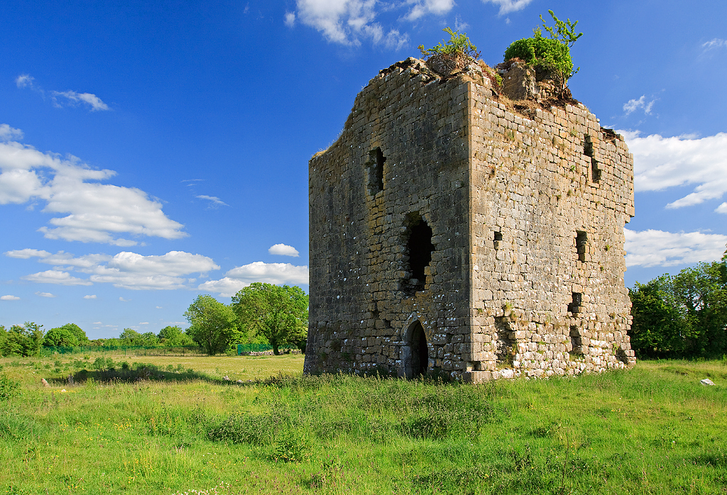 Castles of Connacht: Corrofin, Galway (2)